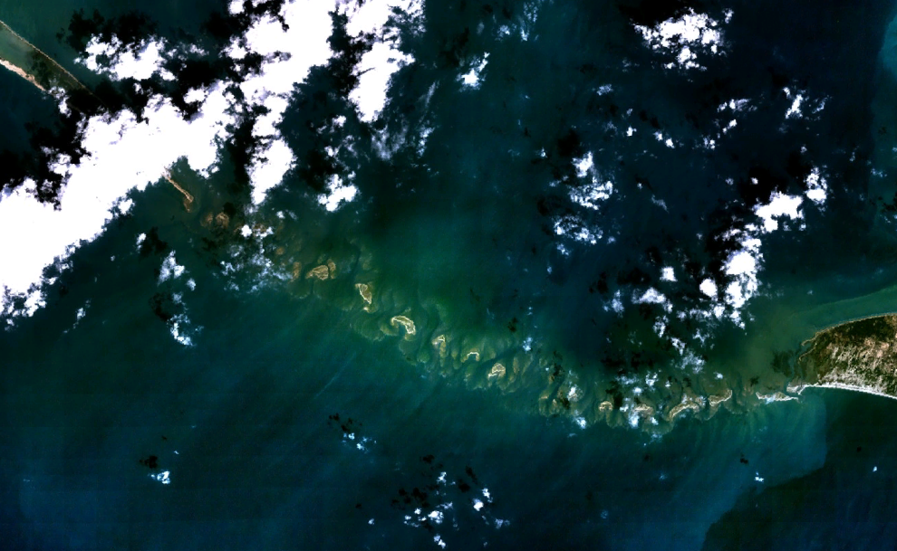 Landsat 7 Imagery of Adam's Bridge (Rama Setu). Image taken form NASA's World Wind software.